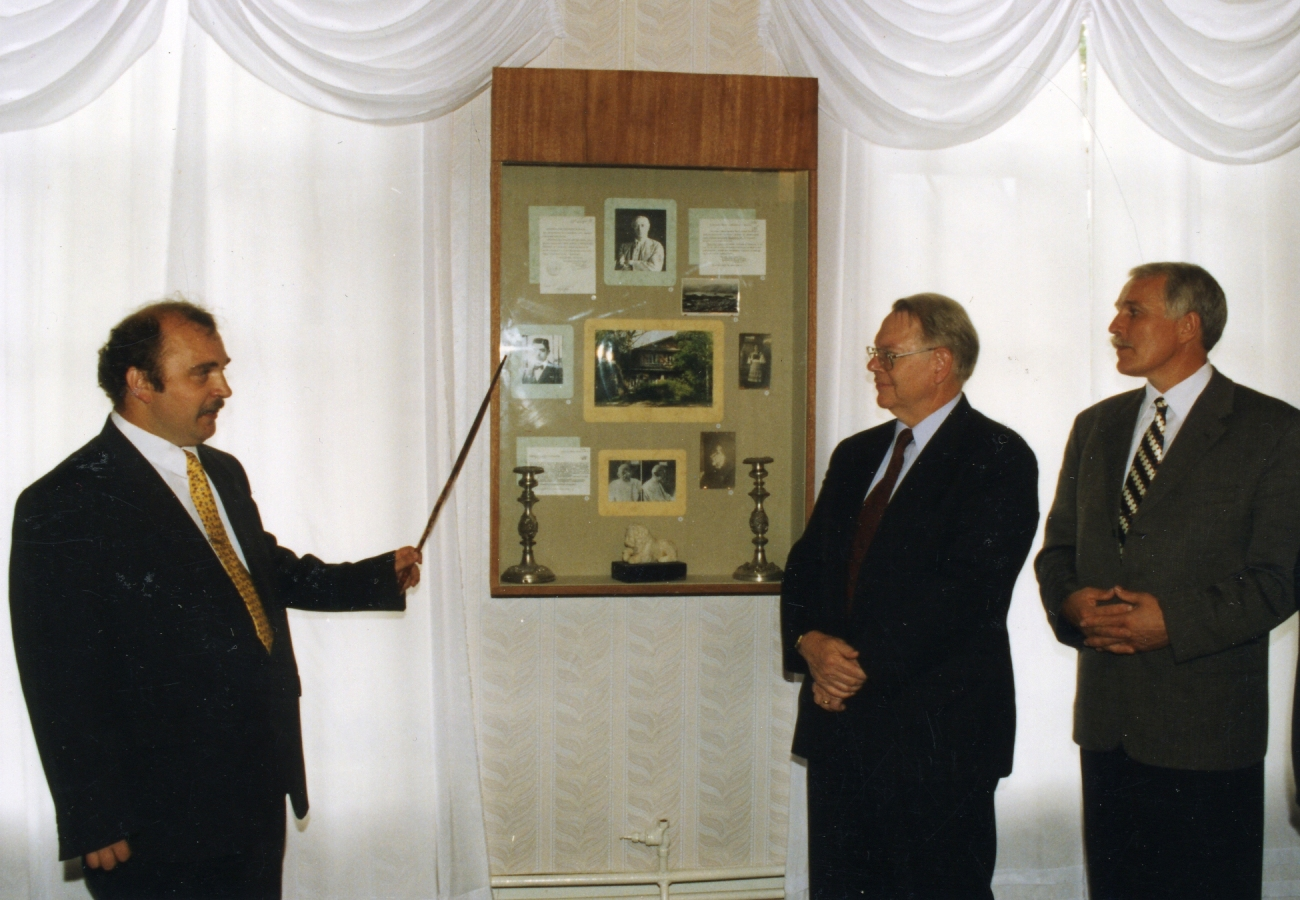 On excursions in the "Museum of the Diplomatic Corps." From left to right: Museum Director A.V. Bykov, US Ambassador to Russia in 1996-2001 J. Collins and Deputy. Governor of the Vologda region I.A. Pozdnyakov